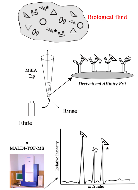 Depicted here is the general procedure for acquiring mass spec assays.